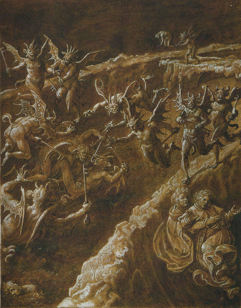 Illustration of Dante's Inferno, Canto 22